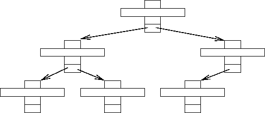 Author: Hartmut Holzgraefe